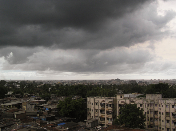 View of Mumbai, India during the monsoon season.Dark Skies